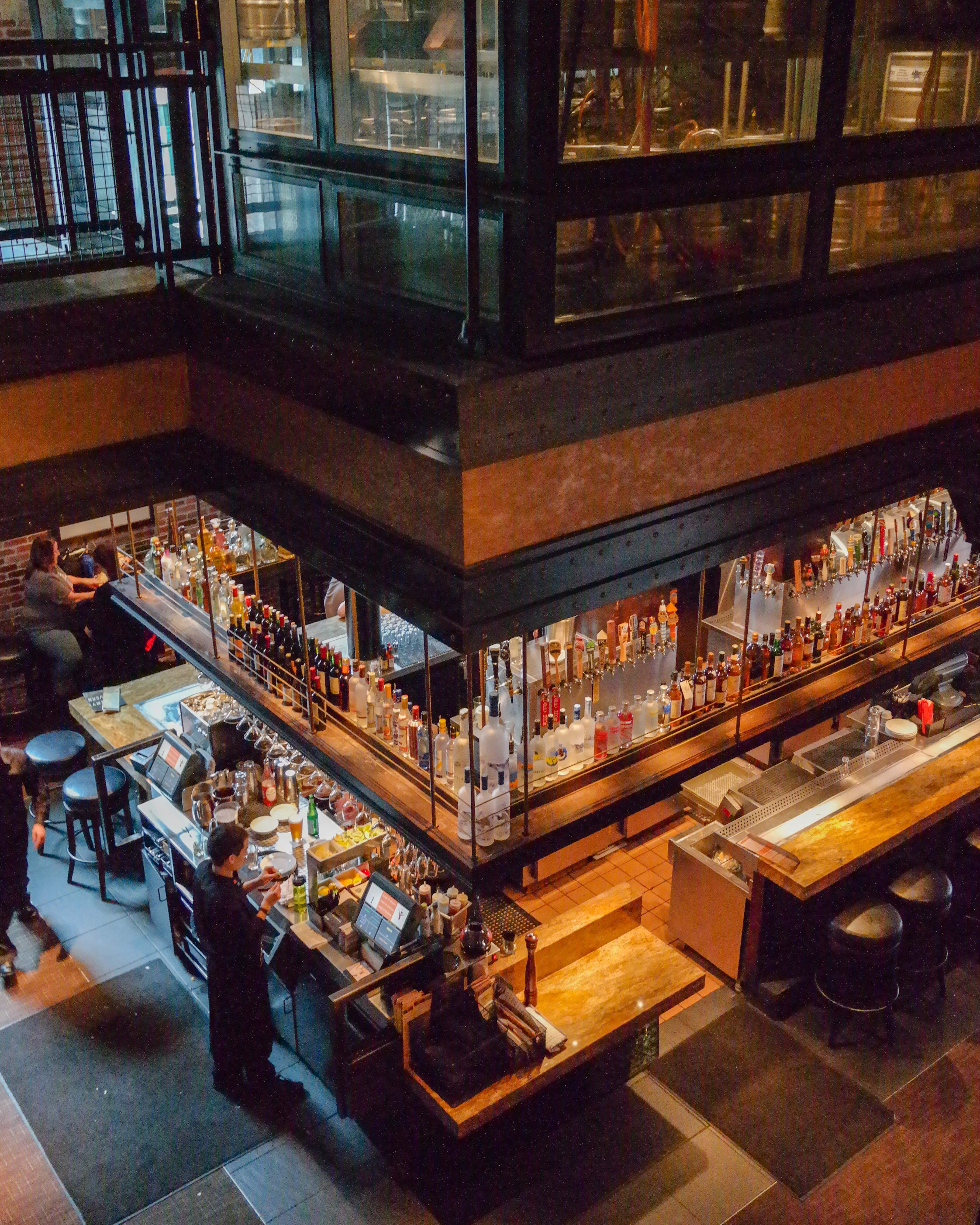 A view of the bar at Henry's Tavern in the Weinhard Brewery Complex in Portland, Oregon. Beer kegs are suspended in a room above the bar. The restaurant closed in September 2019 after 15 years in business.